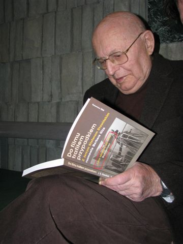 Jerzy Stefan Stawiński (b. July 1, 1921 in Zakręt, Poland) – Polish writer and film-scenarist. He lives in Warsaw, Poland